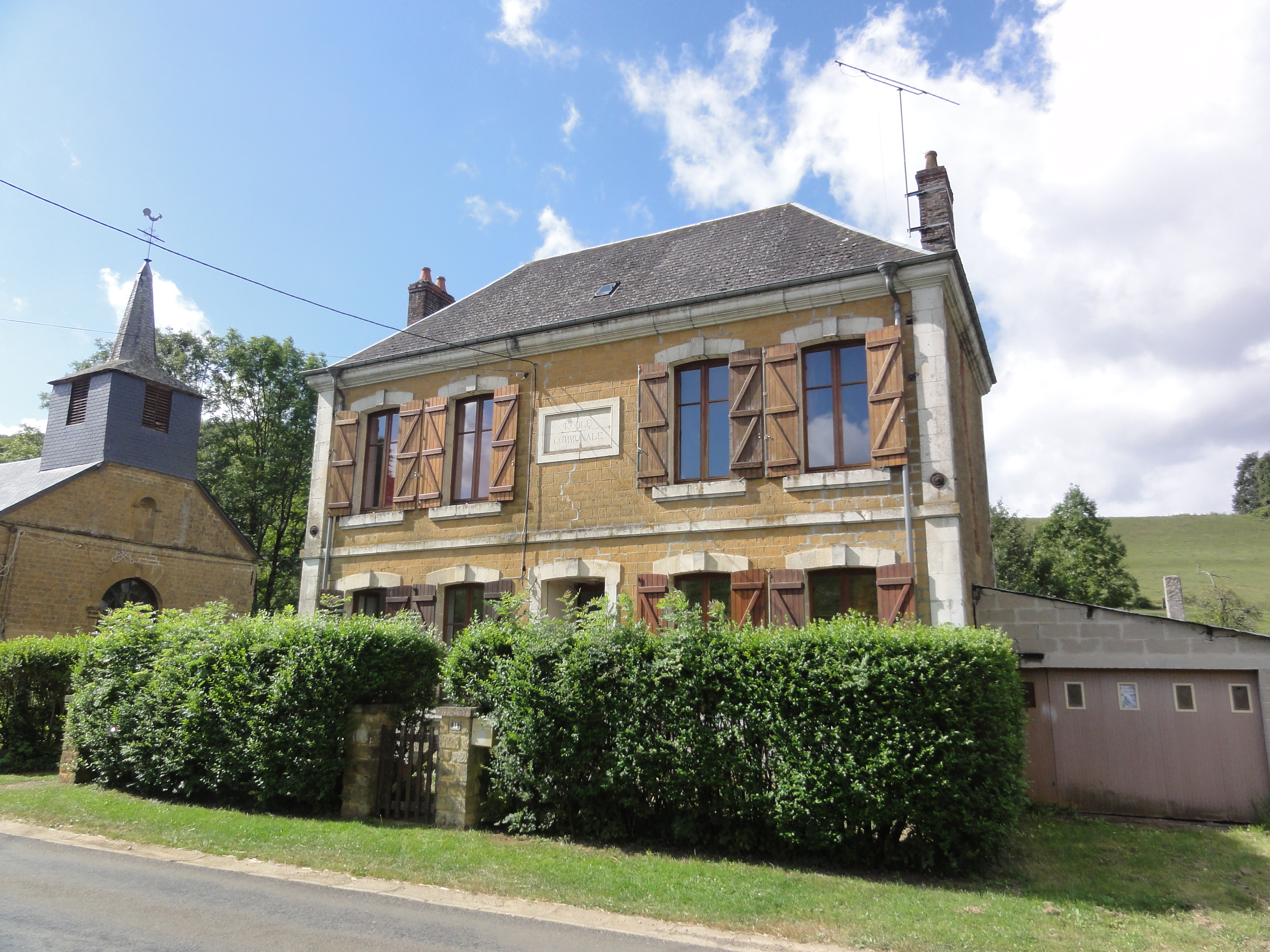 Clavy-Warby (Ardennes) ancienne école Warby